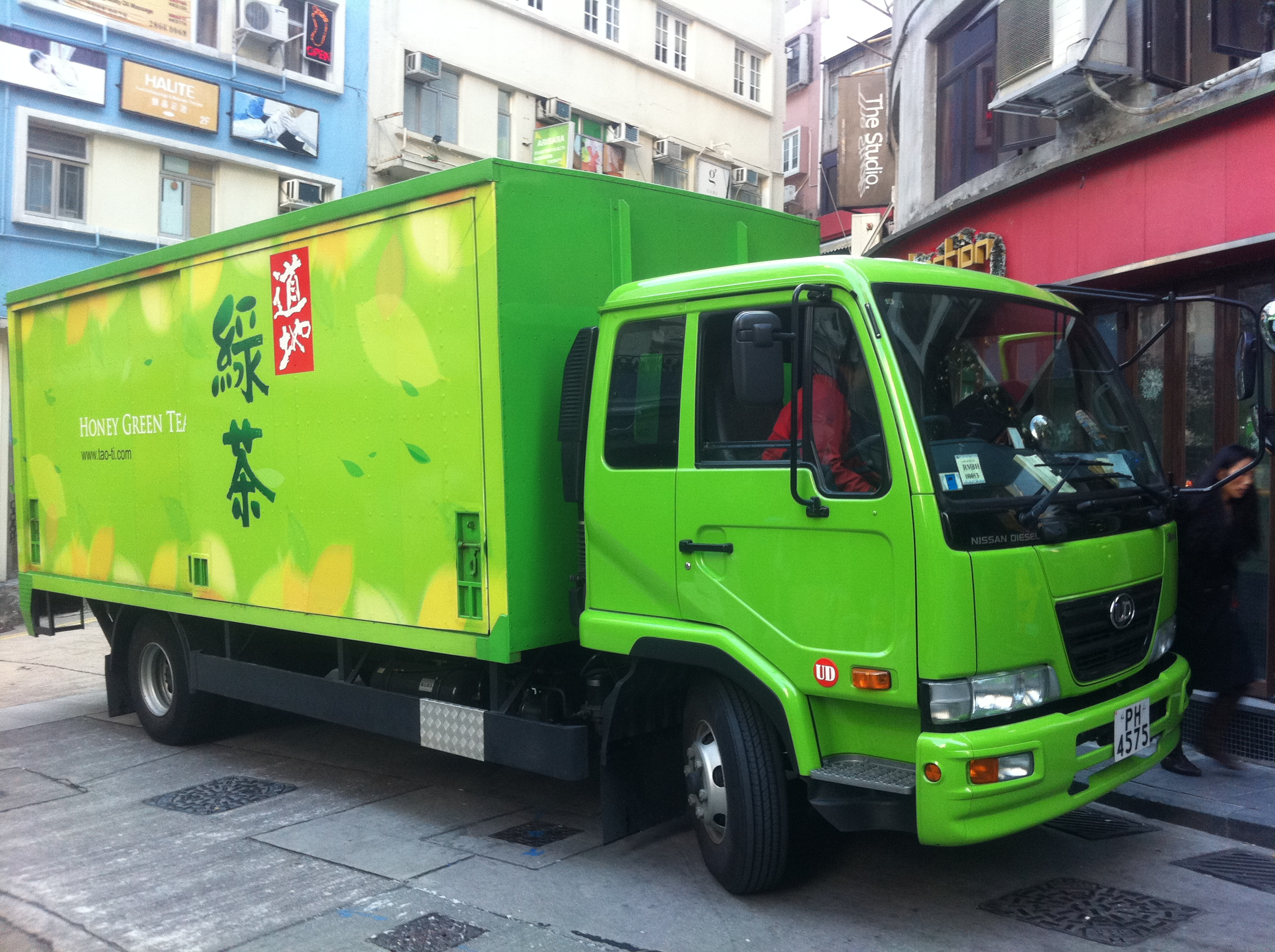 中環 士丹頓街